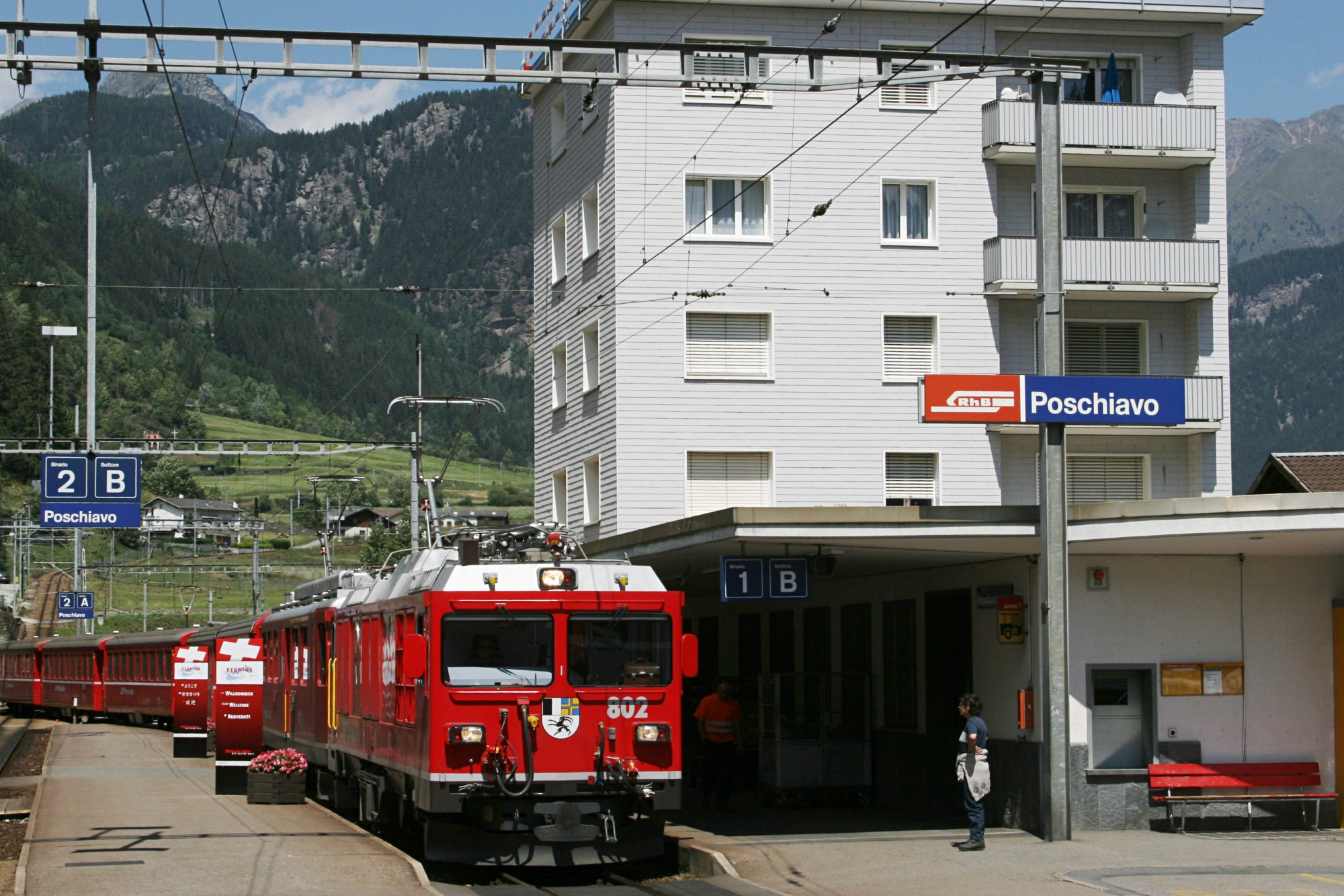 RhB Berninabahn train in Poschiavo station